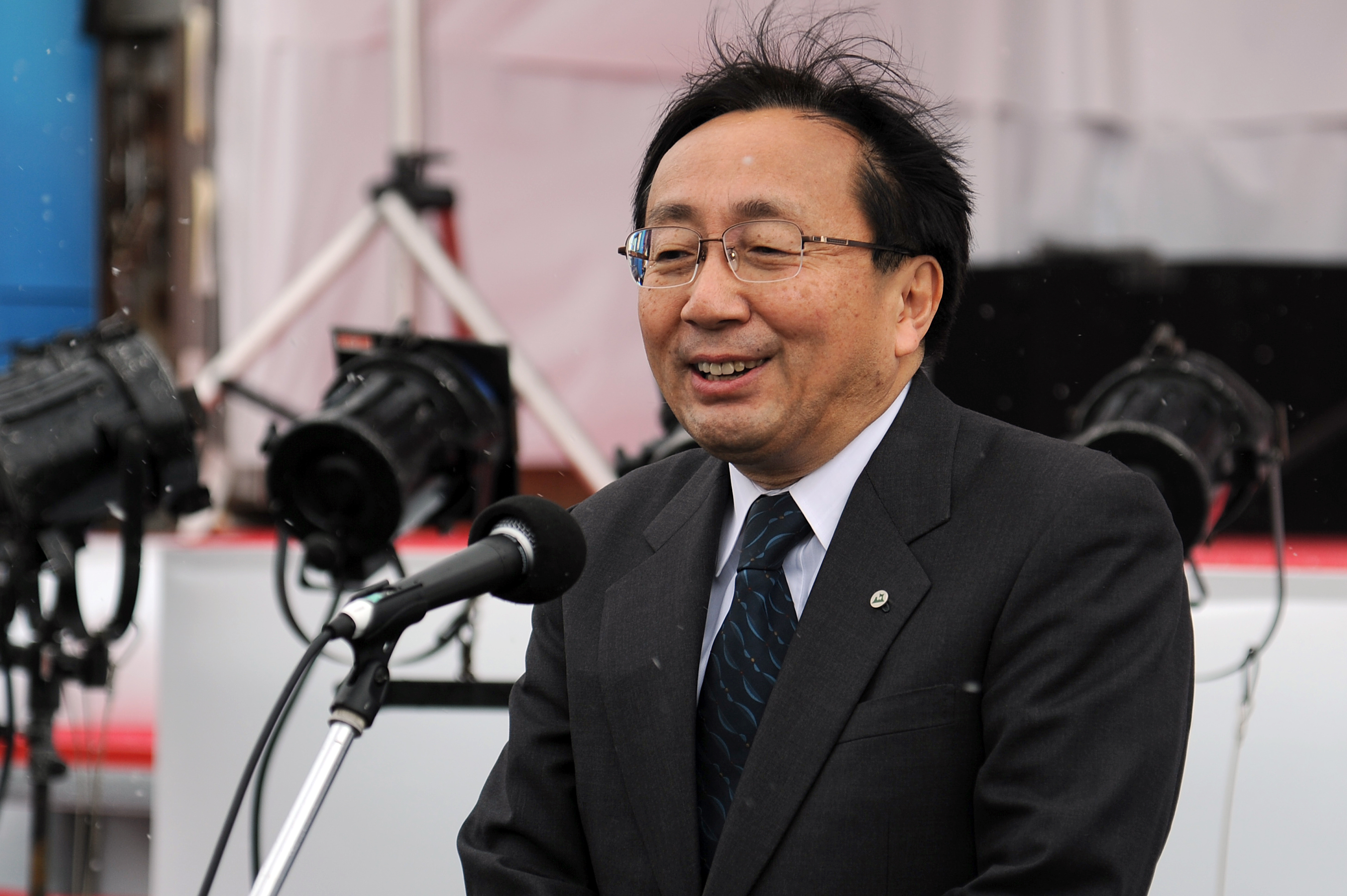 Governor Shingo Mimura, Aomori Prefecture, gives opening remarks during a remembrance ceremony held at Momoishi Port in Oirase Town, Japan, March 11, 2012. Oirase Town hosted a two-day event to remember the victims of the 9.0 magnitude earthquake and subsequent tsunami that occurred on March 11, 2011.